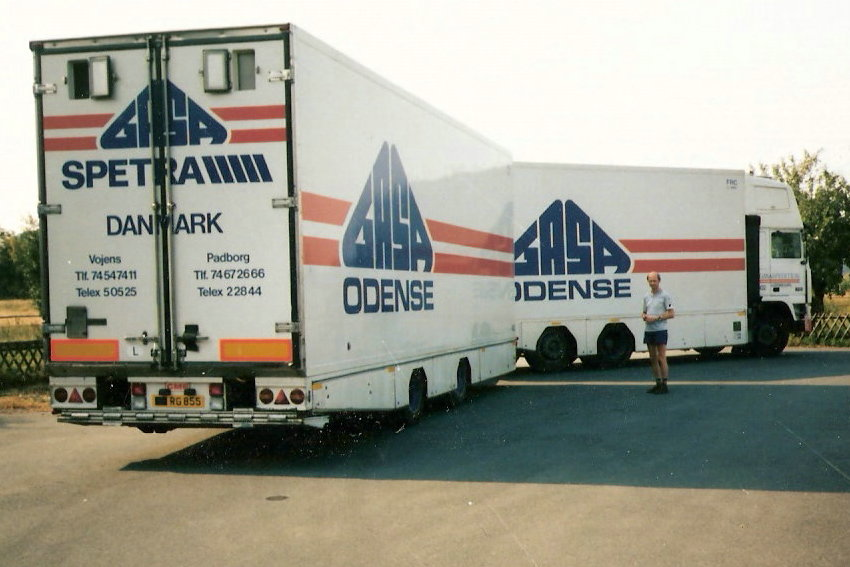 Volvo F12 Globetrotter furniture van and trailer